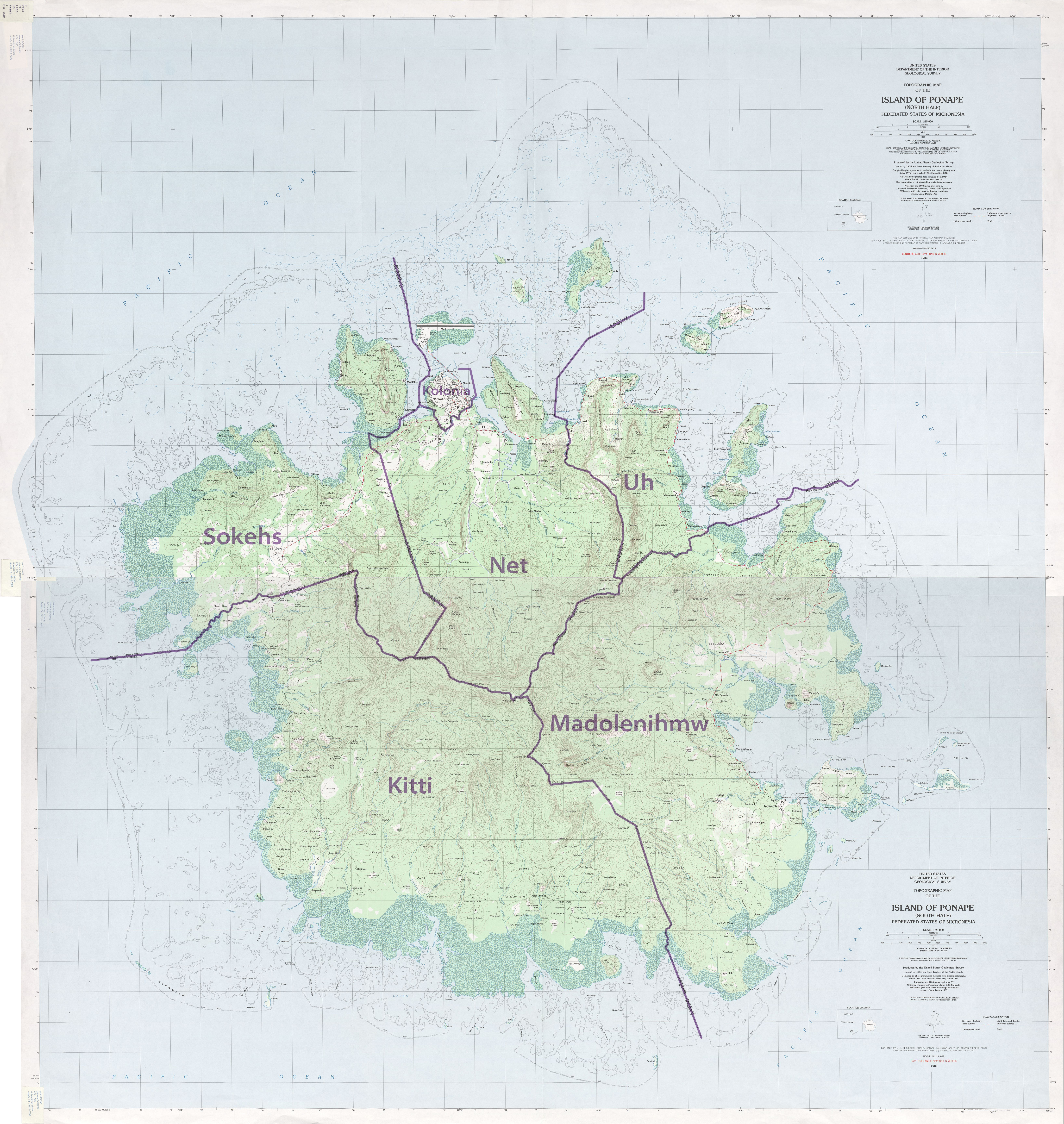 Pohnpei Island with municipality boundaries, Micronesia, Pacific Ocean, stitching of 4 maps